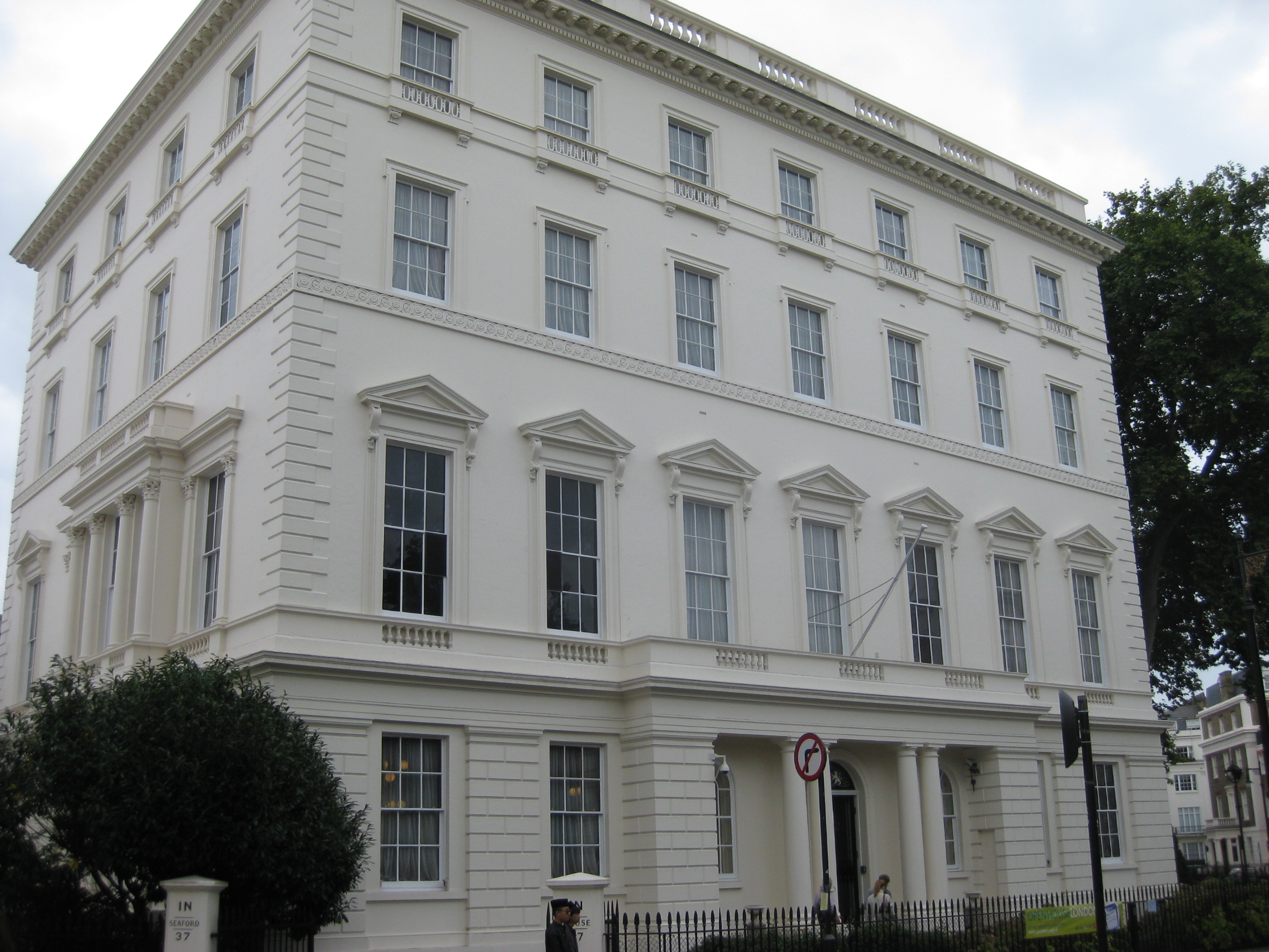 Seaford House (27 Belgrave Square), built in 1842 by Philip Hardwick for the Earl of Sefton.